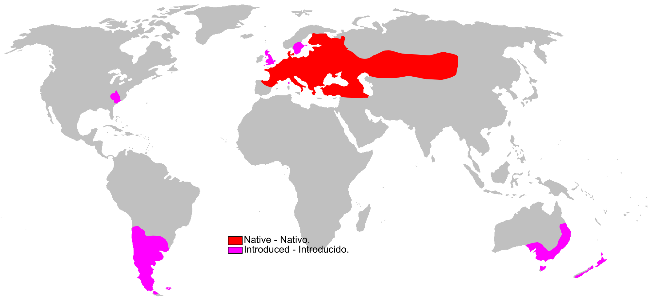 Distribution range map of Lepus europaeus